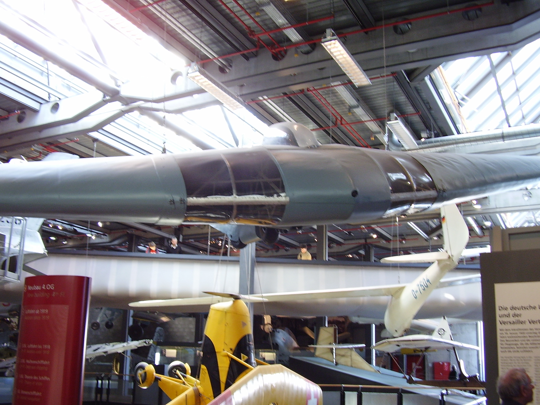 Deutsches Technikmuseum Berlin, a museum about general technology, ships, planes, cars and rail vehicles. The plane at the top of the image is a flying wing Horten Ho II.